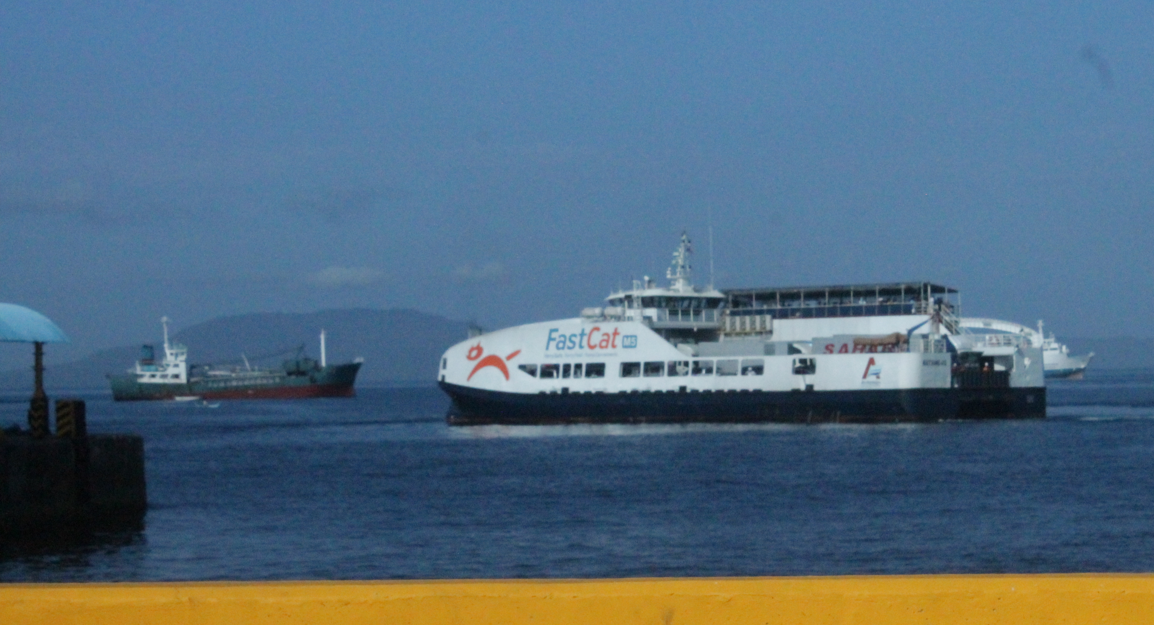 FastCat M5 catamaran ferry of Archipelago Philippine Ferries Corporation, near the waters of Port of Batangas.